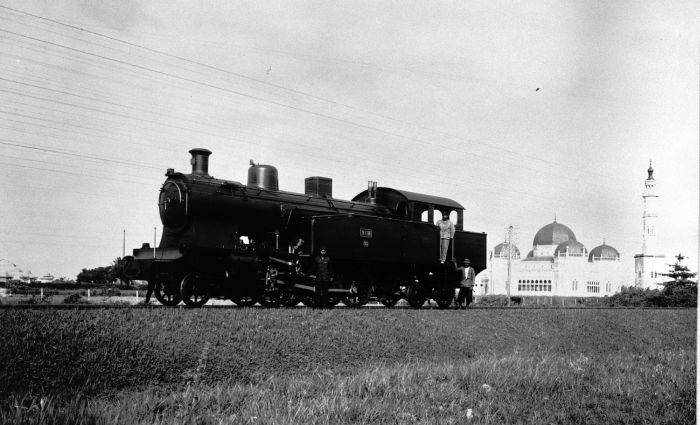 Locomotive of the Deli Railway Company in Medan with the mosque in the background, East-Sumatra.